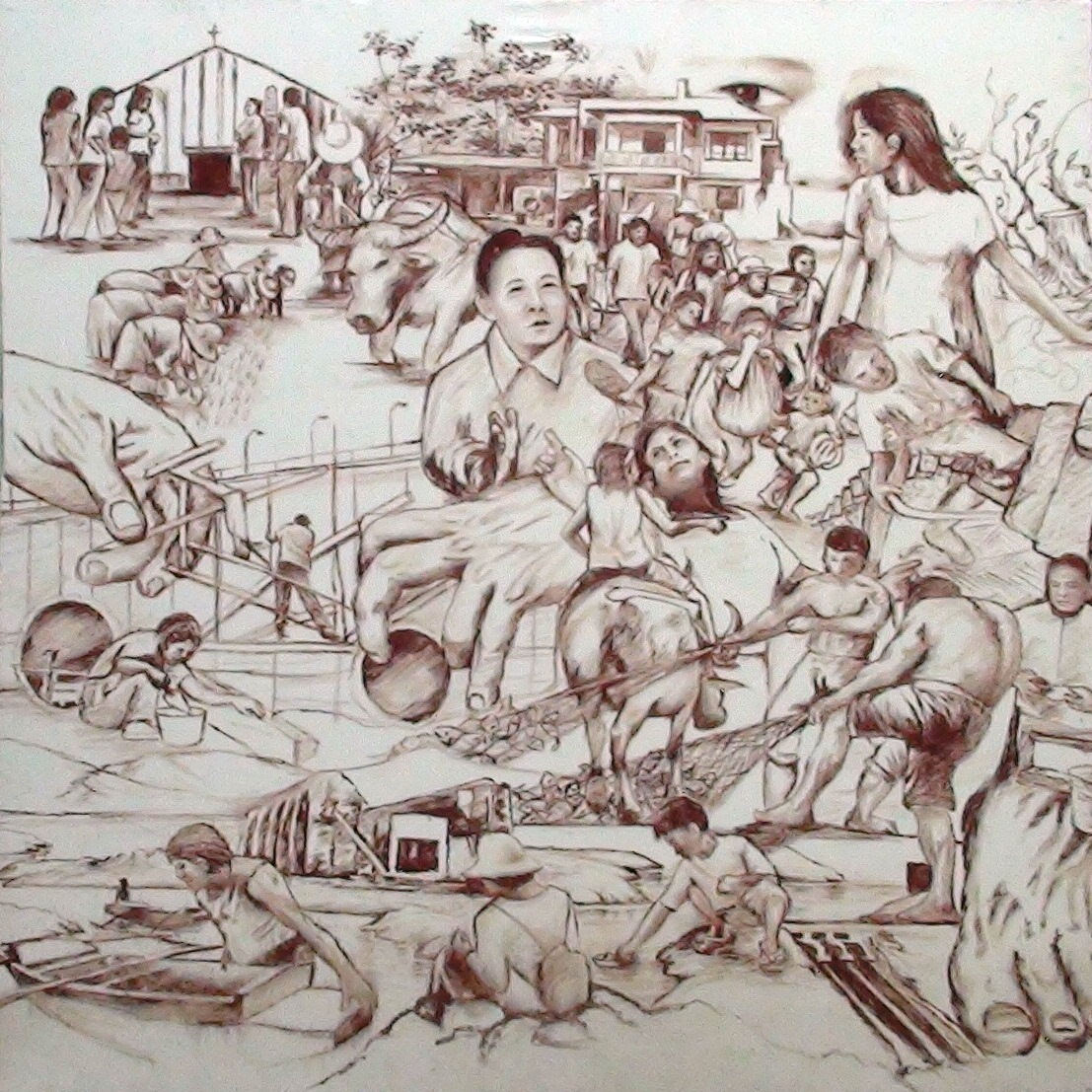 Medium: Artist Blood Size: 4 x 4 ft